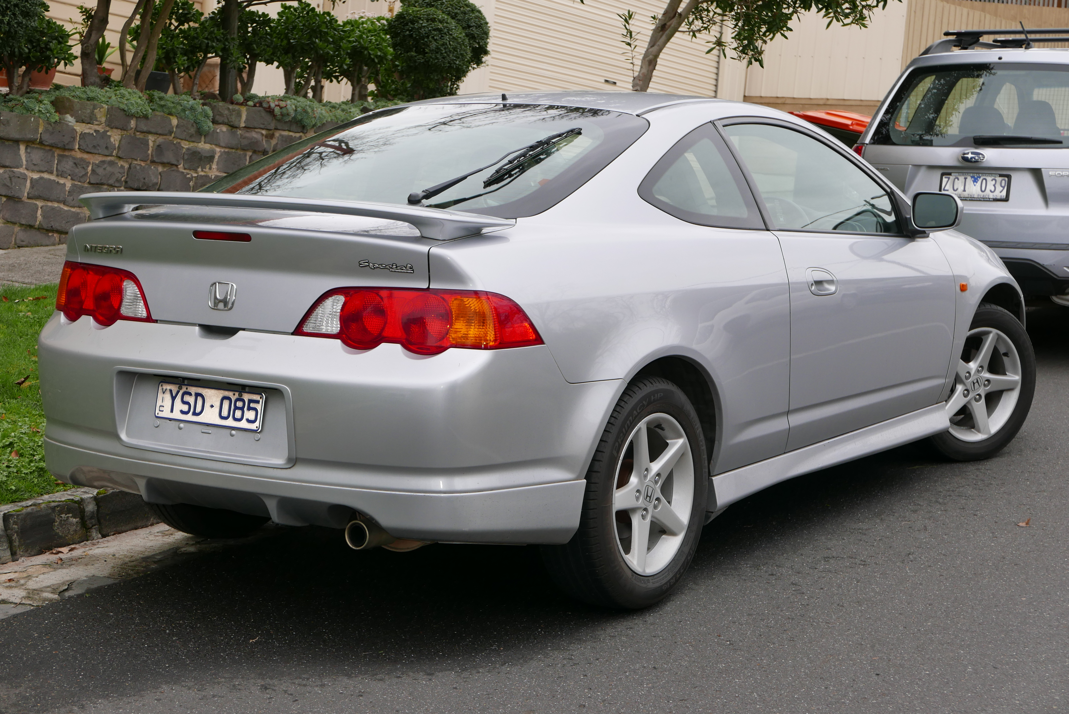 2002 Honda Integra (DC5) Special Edition coupe. Photographed in Kew, Victoria, Australia. Vehicle registration enquiry resultsJurisdictionVictoriaRegistrationYSD085Chassis codeJHMDC54302C201625Engine code18011324017692Compliance date2002-06Year of manufacture2002